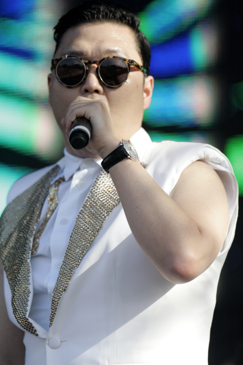 Future Music Festival, Randwick, Sydney, Australia...